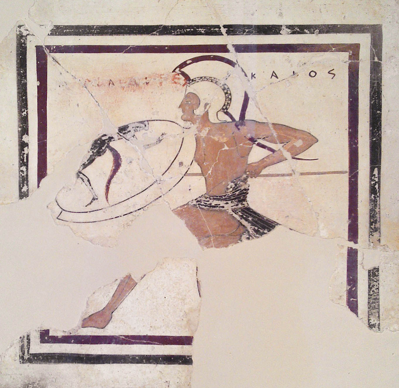 Terracotta plaque with armed Hoplite running, a satyr painted on the shield. Plaque fragments from the Acropolis, 525 to 475 BCE. Current Collection: Athens, National Museum, Acropolis Coll.: 2.1037. Inscriptions: Μεγα[κ]λ[ε]ς ^ καλος (MEGAKLES KALOS). Erased, letters partly reused and repainted in red:Γλαυ[κ]υτ[ε]ς καλος (GLAUKYTES KALOS). These letters also effaced, but more crudely.